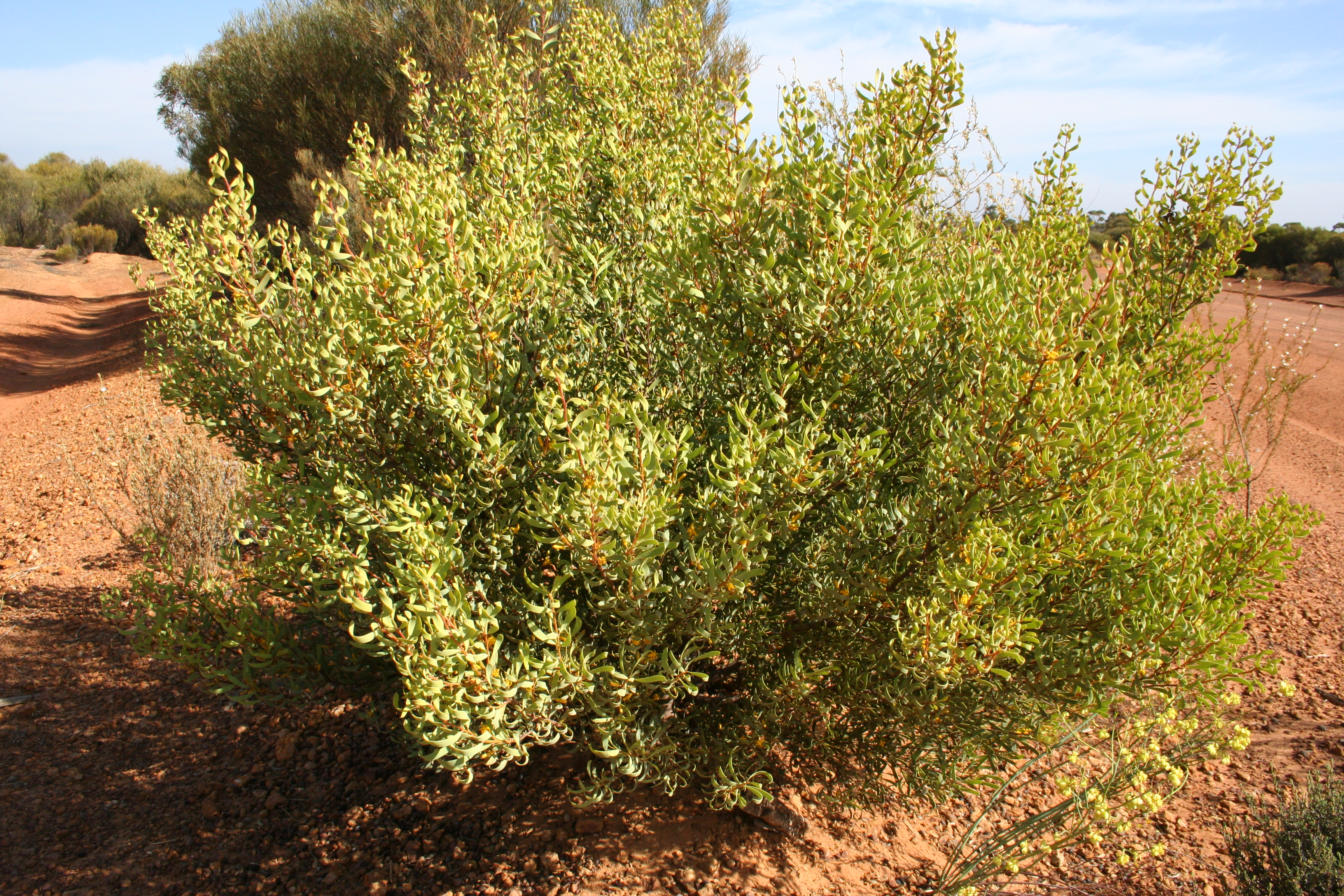 Persoonia coriacea n Marvel Loch Forrestiana road south from Yellowdine, WA